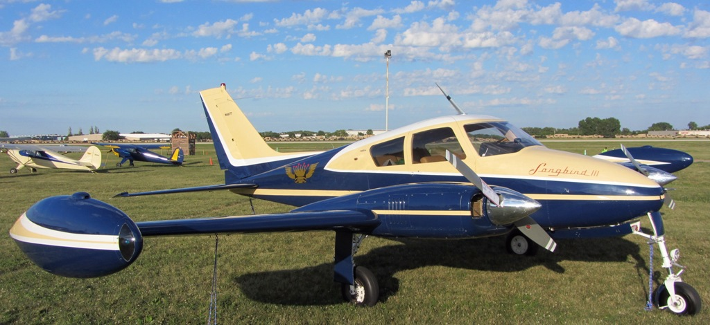 Songbird III